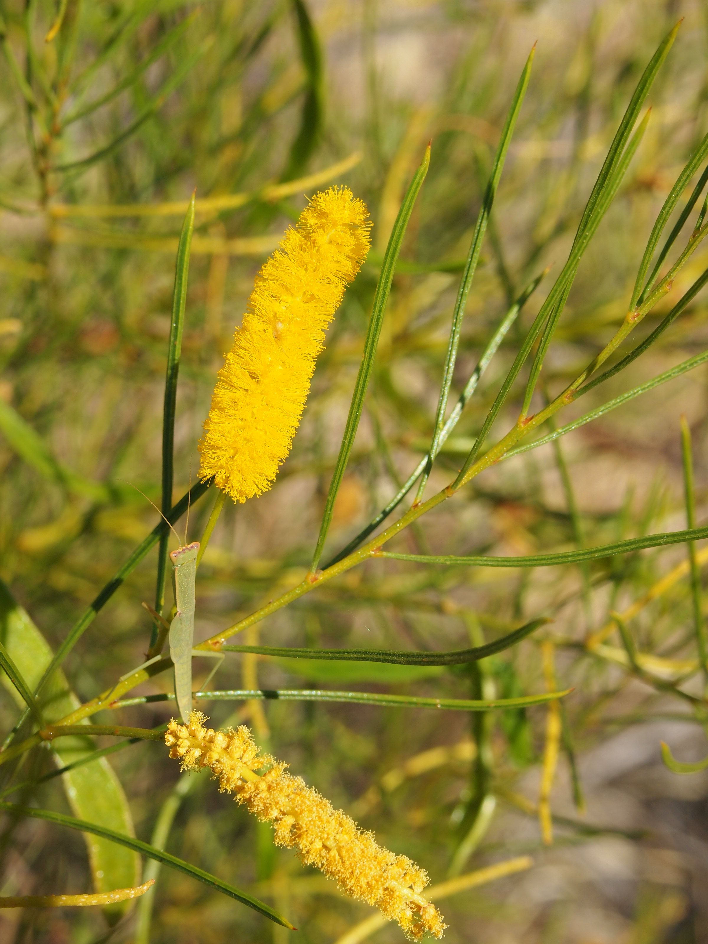 Acacia chisholmii flowers